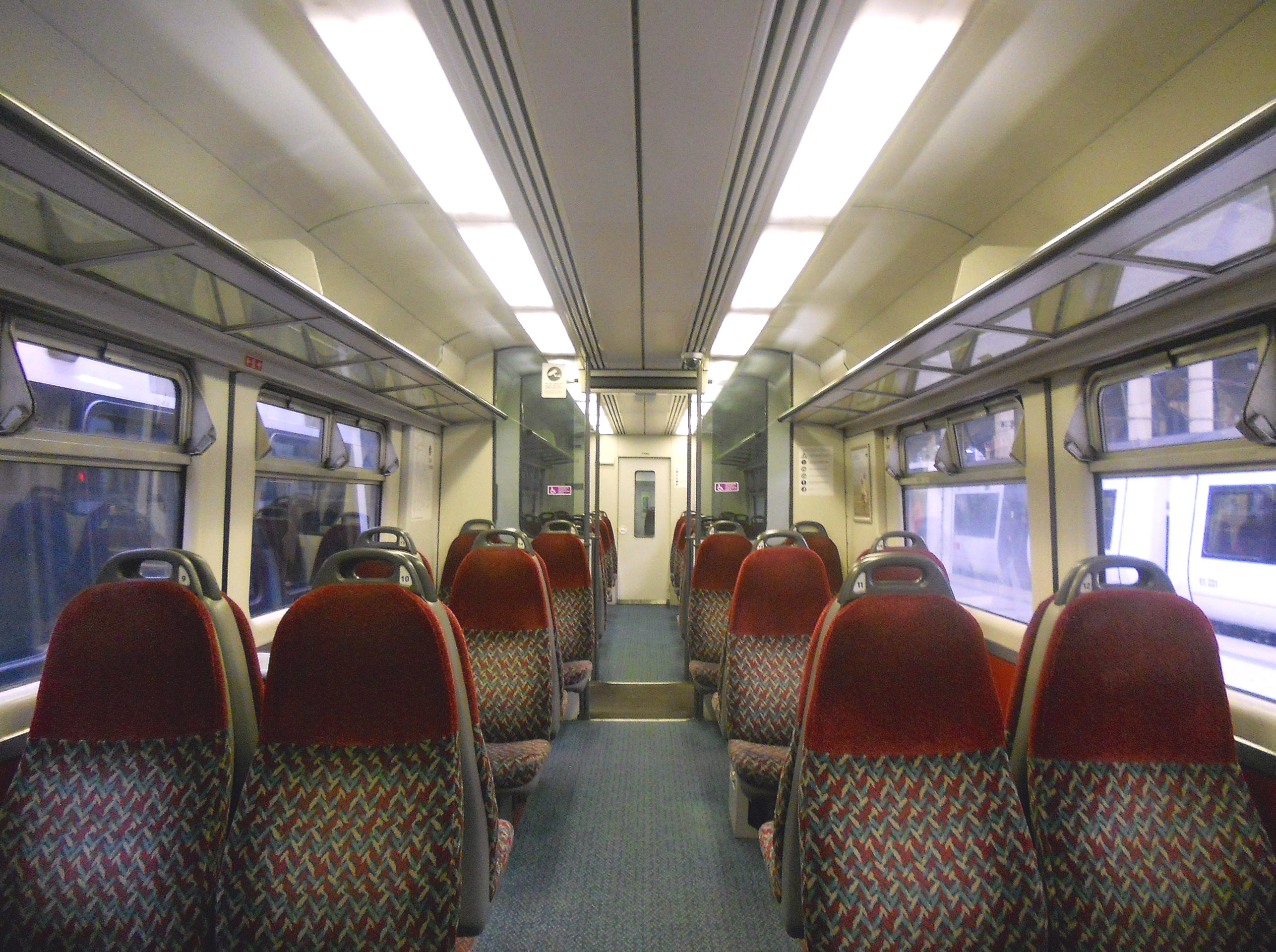 The interior of refurbished Standard Class accommodation aboard a WAGN Railway Class 317/6